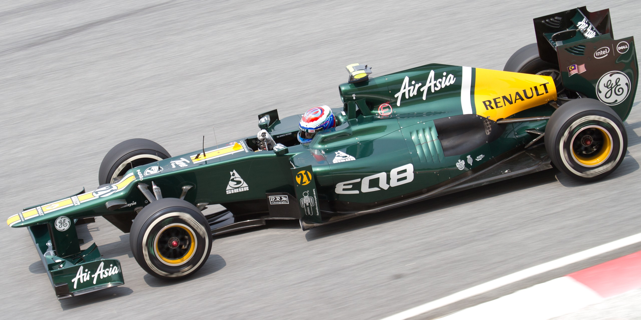 Formula One 2012 Rd.2 Malaysian GP: Vitaly Petrov (Caterham) during the second practice session on Friday.